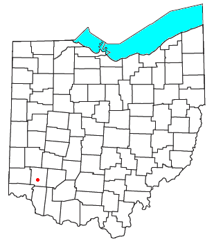 Locator map of the unincorporated community of Zoar in Warren County, Ohio, United States.